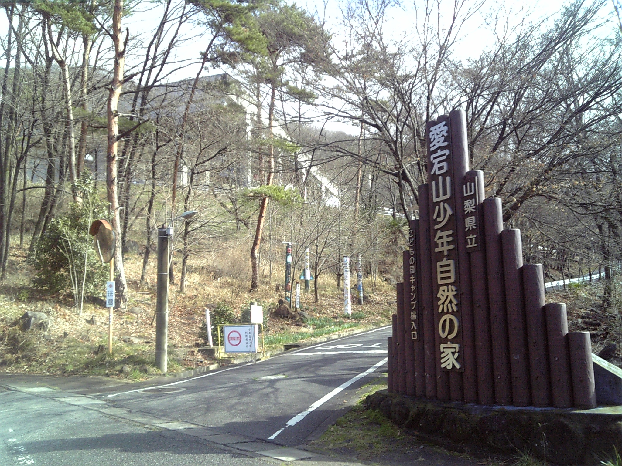 Mt.Atago Kodomono-kuni An amusement for prefectural children